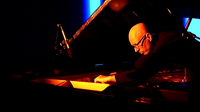 Virgil Moorefield at piano